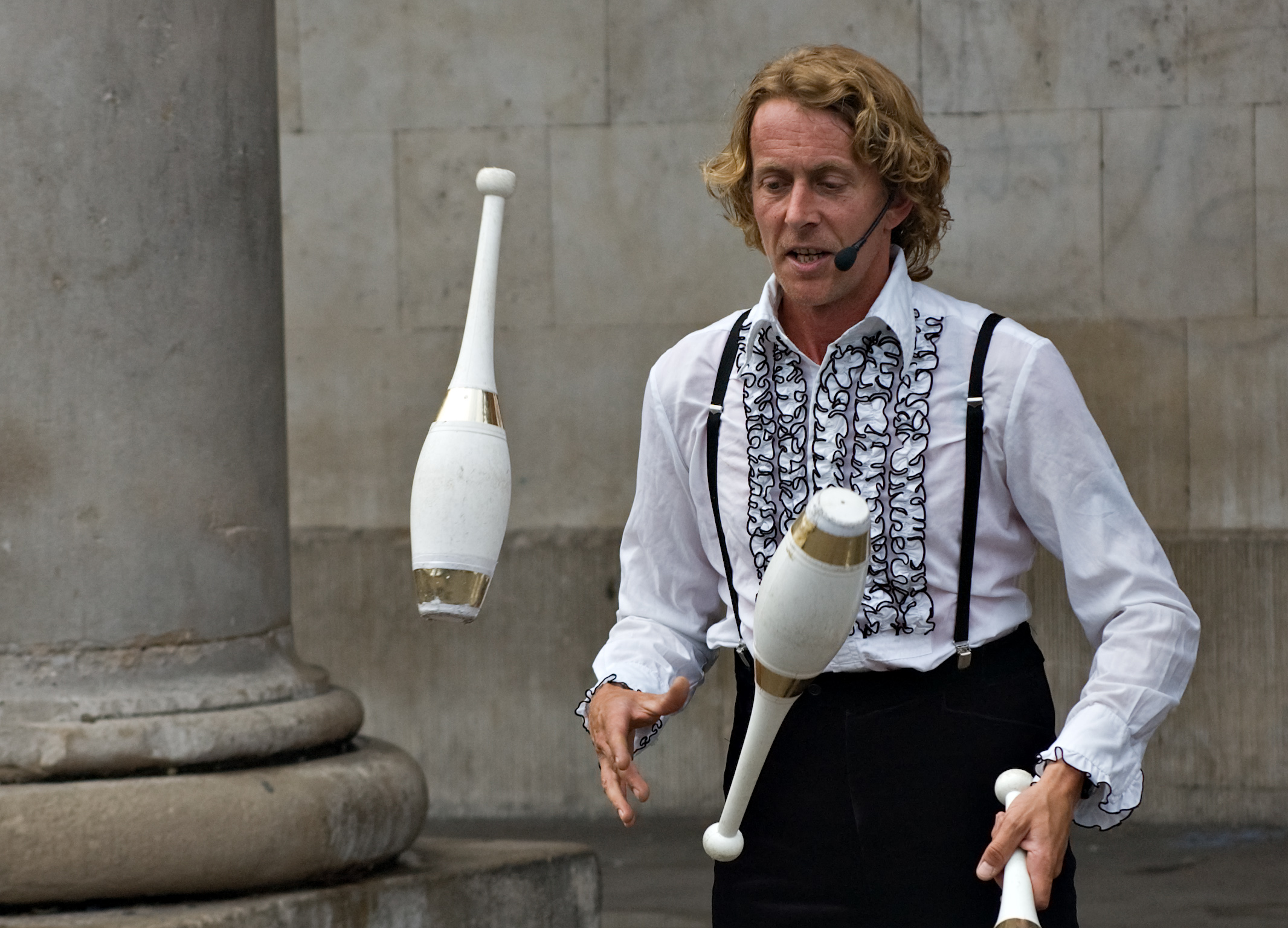 The juggler "The Great Dave" performing in Covent Garden in London on July 8, 2009.